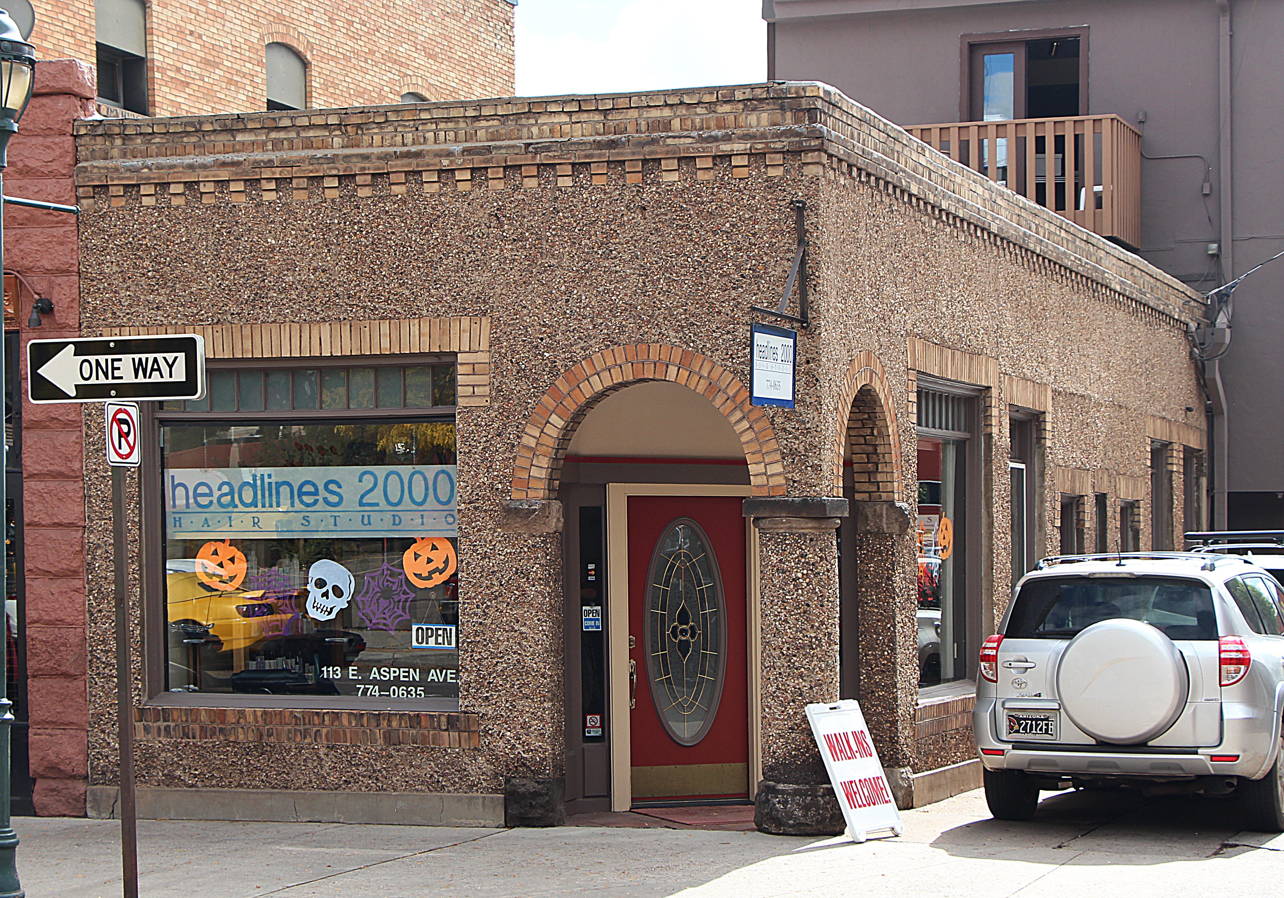 Bikker Building #1, 113 E. Aspen Ave., Flagstaff, AZ